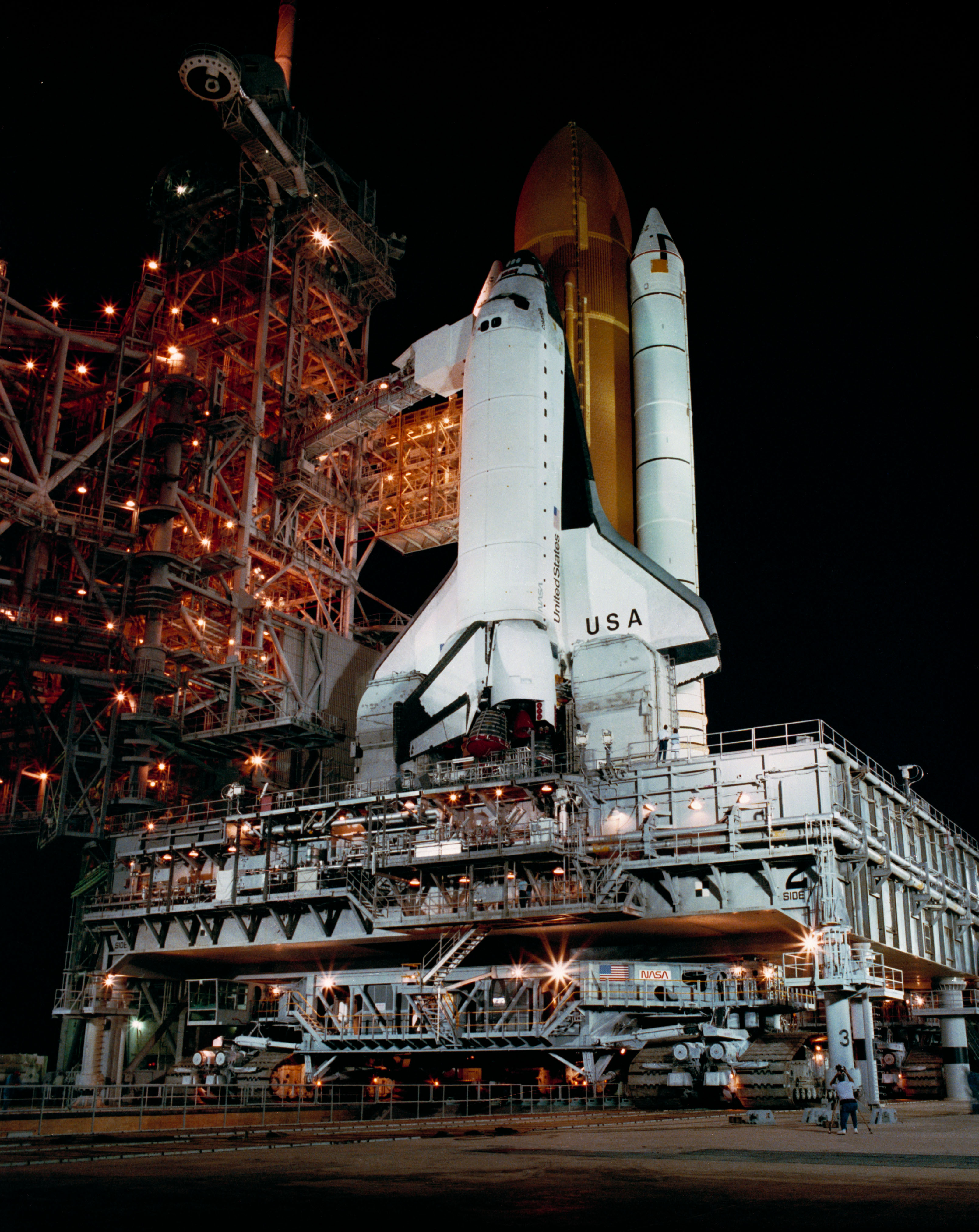 The Space Shuttle Columbia arrives at Pad 39B early in the morning after being rolled out of the Vehicle Assembly Building the night before. Columbia is scheduled for Launch on Space Shuttle Mission STS-28 in late July on a Department of Defense dedicated mission.